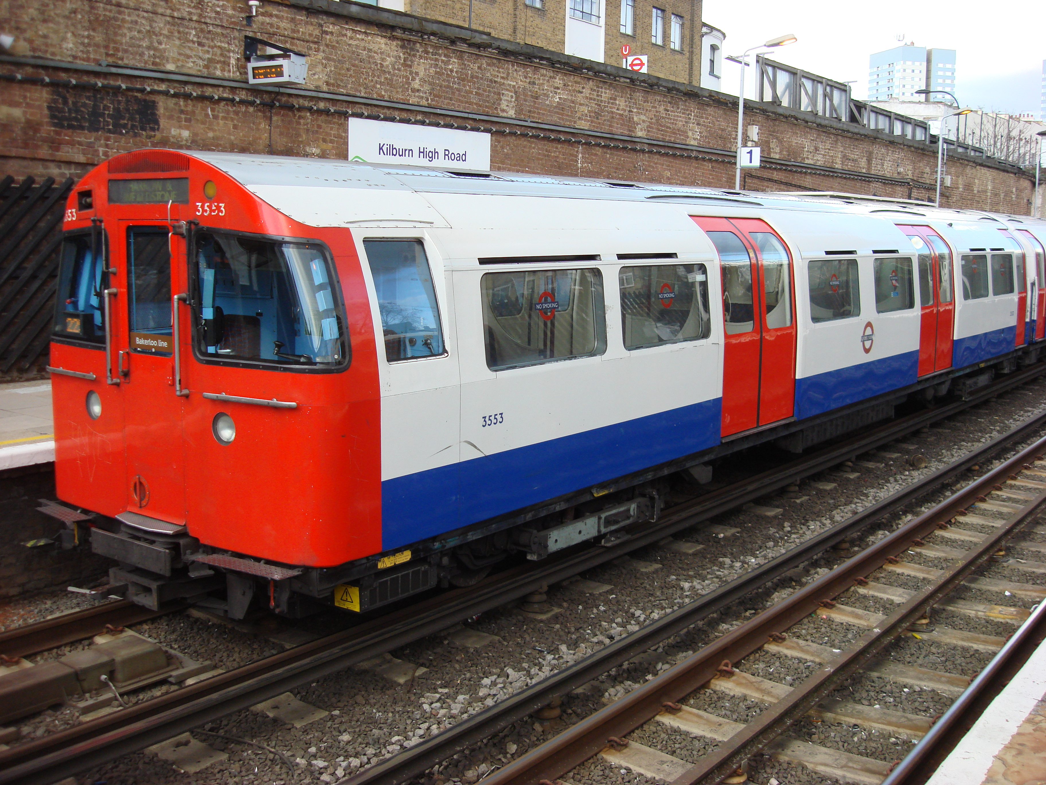 London Underground trains do not pick up or drop off passengers at Kilburn High Road railway station. The station appears on internal London Underground (LU) maps as it is used as a reversing point by Bakerloo Line trains when they are unable to enter the LU platforms at Queens Park station due to scheduled work or failures and/or are prevented from reversing in the Up DC line platform there; the fourth rail (bonded to the traction current return rail) continues to Kilburn High Road to permit these manoeuvres but the carrying of passengers to Kilburn High Road by LU tube trains is not permitted as the platform height is matched to NR trains (platforms on this line north of Queens Park station are positioned at a "transition" height which is higher than that for normal LU platforms and lower than NR platforms). There are also one or two "rusty rail" journeys made by LU trains each day to keep the fourth rail clean for the relatively infrequent unscheduled diverted LU trains. This image shows a unit of London Underground 1972 Stock on one of these movements.